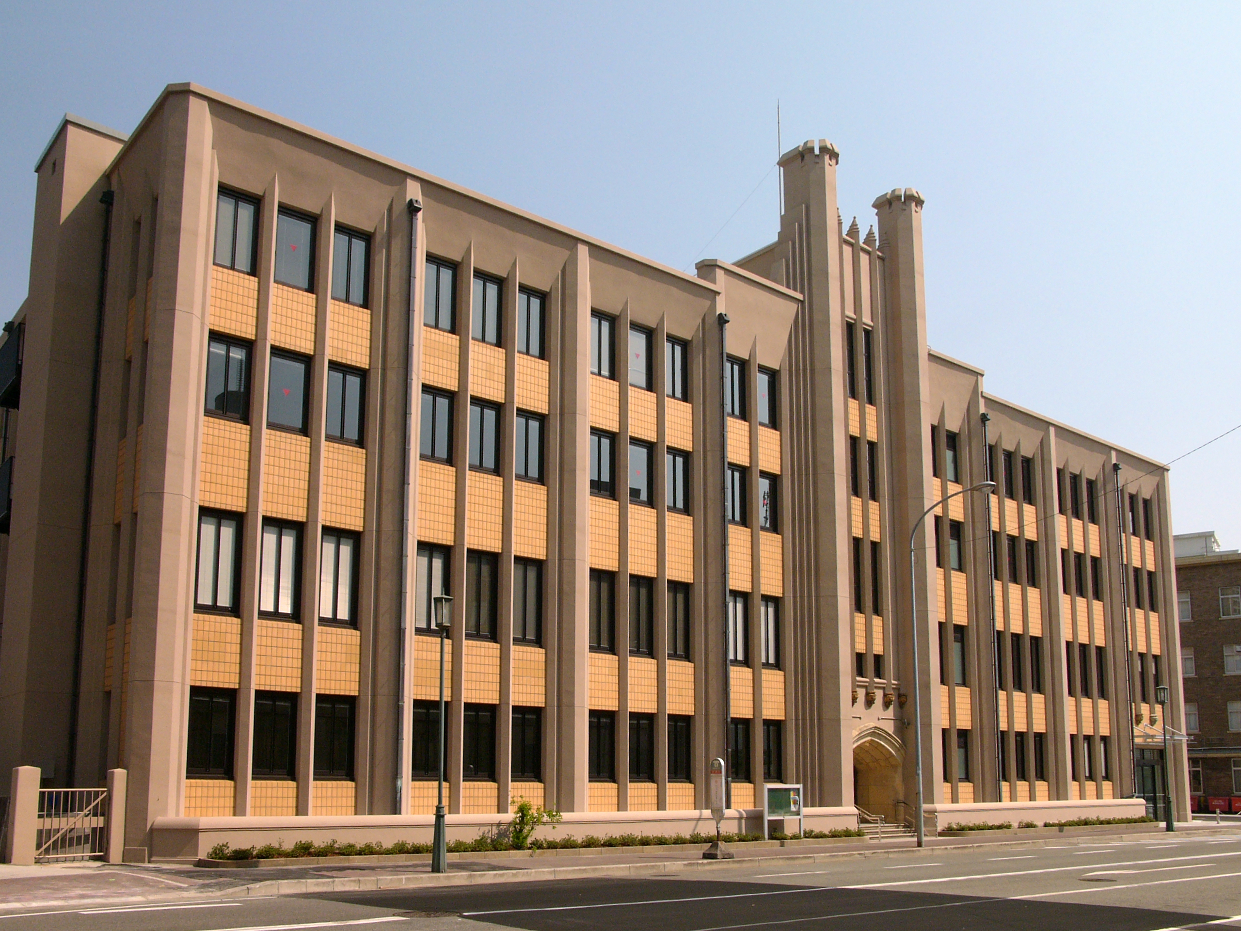 Former Kobe Municipal Raw Silk Conditioning Houses in Kobe Hyogo prefecture, Japan.